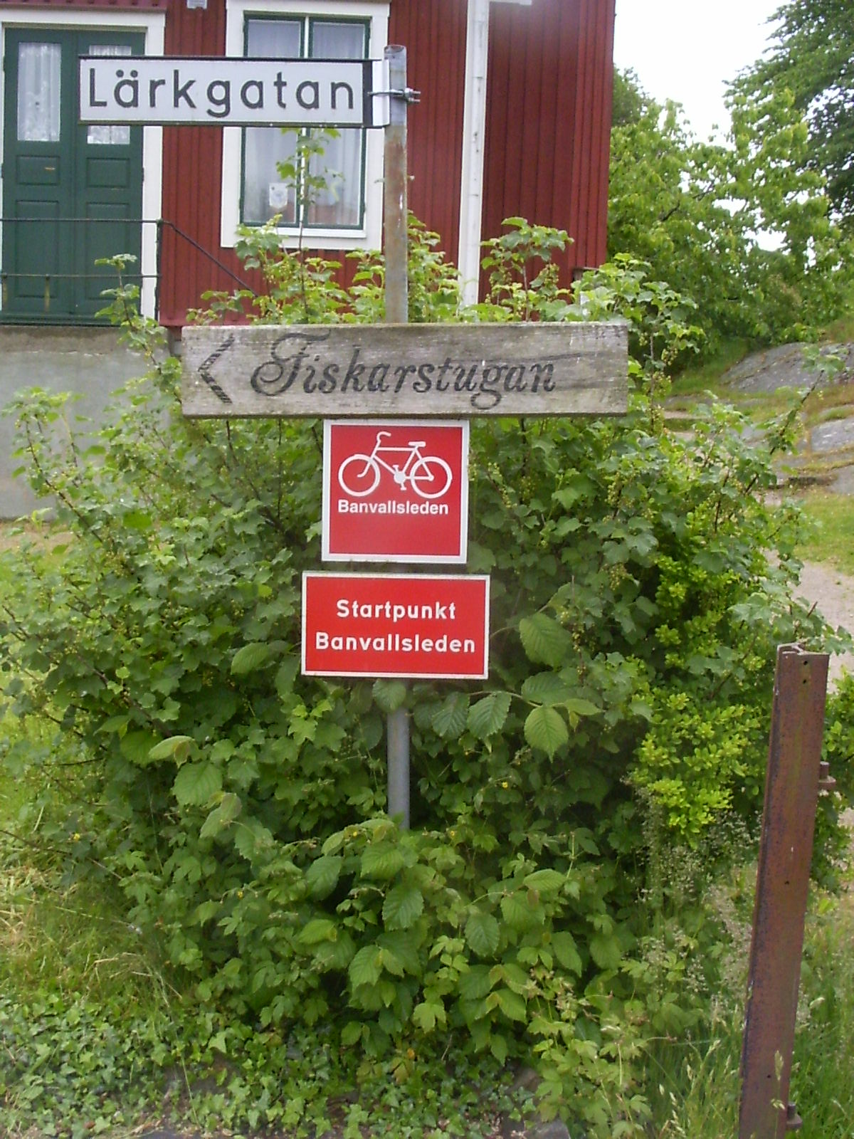 Karlshamn, starting point of Banvallsleden cycling route to Halmstad